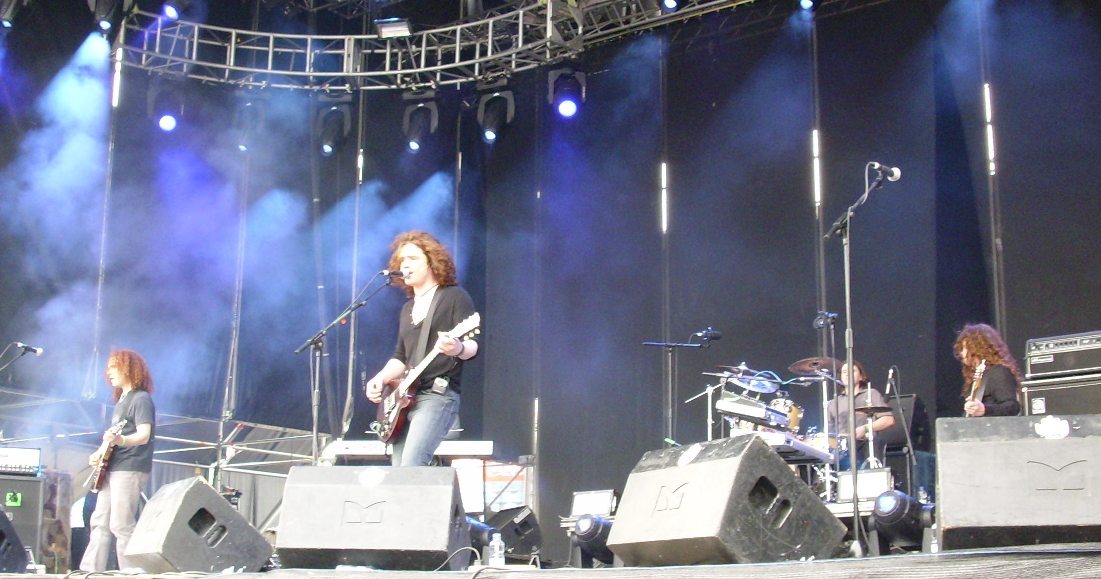 Live Festimad 2007 , 8 June 2007